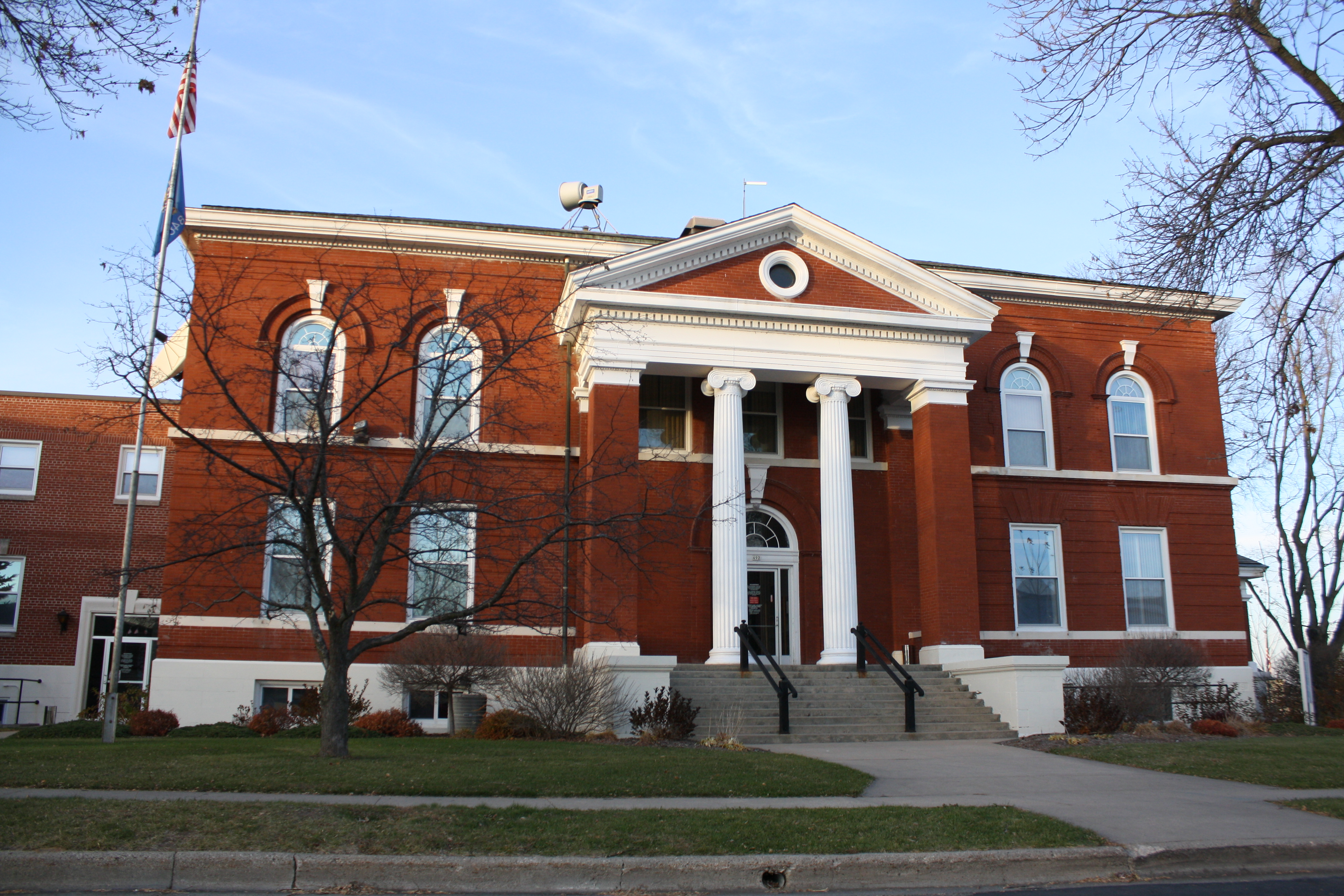 The Green Lake County Courthouse in Green Lake, Wisconsin, listed on the National Register of Historic Places.